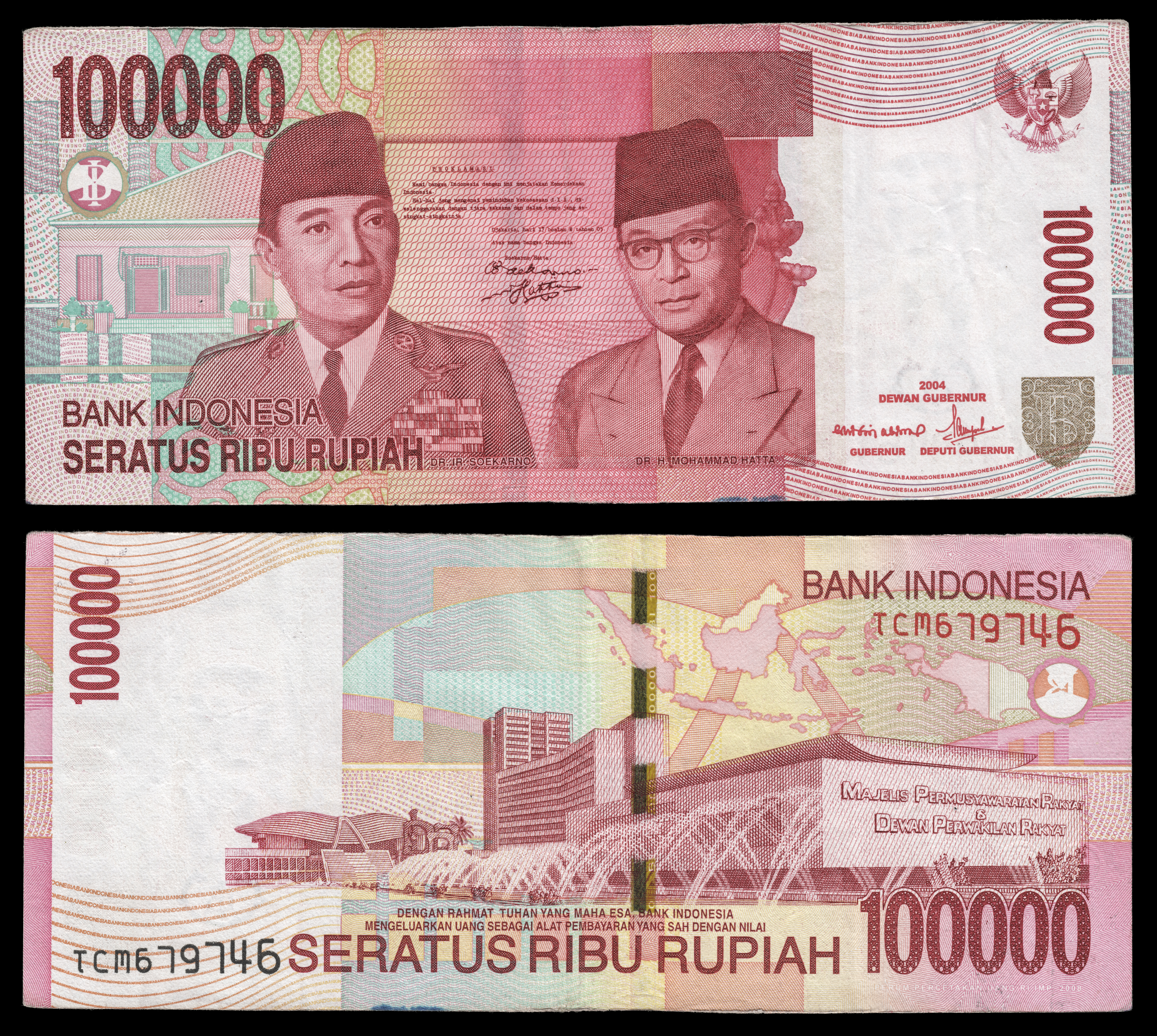 100000 rupiah bill, 2004 issue, processed, obverse+reverse